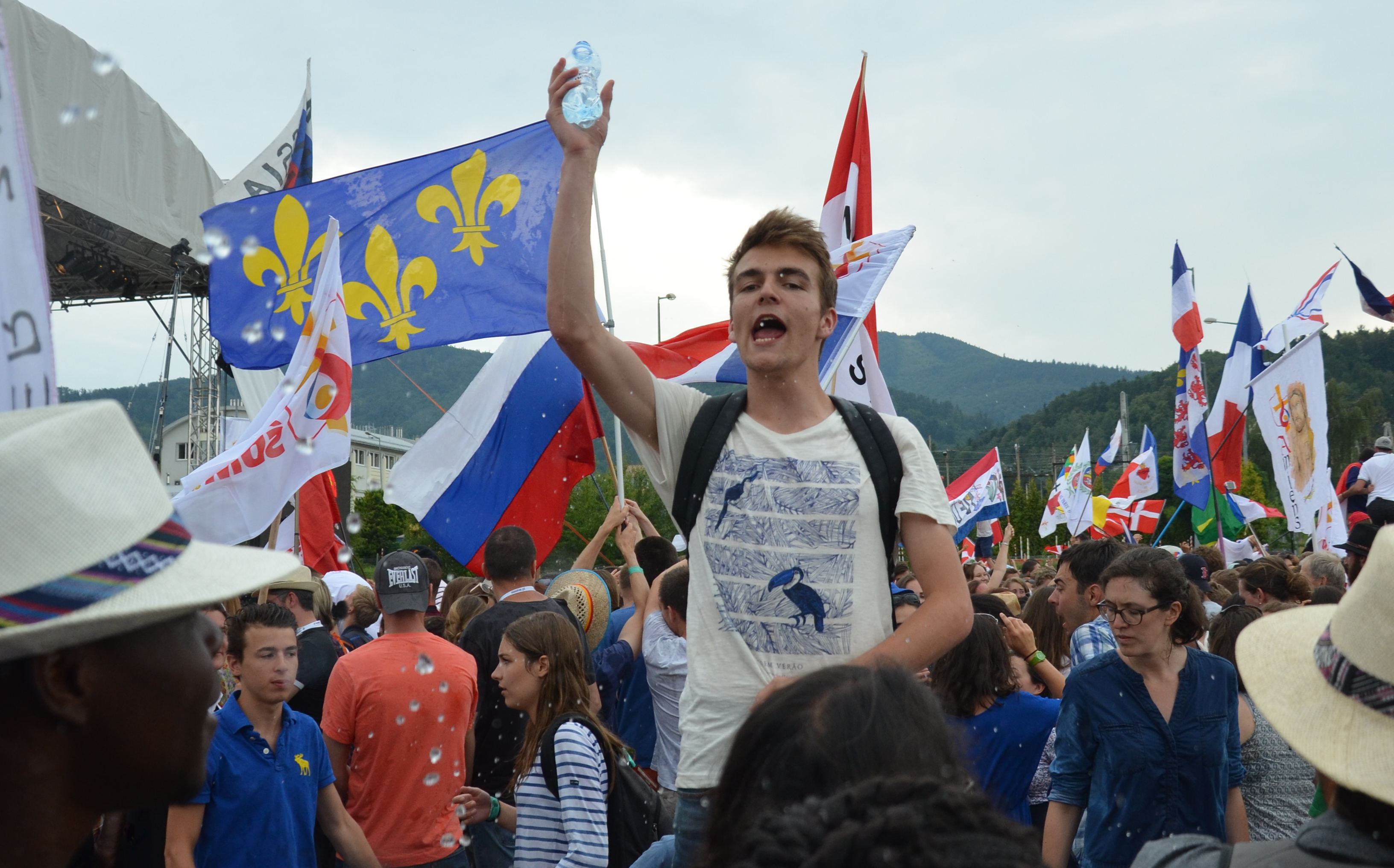 Weltjugendtag 2016 im Bistum Bielitz-Saybusch